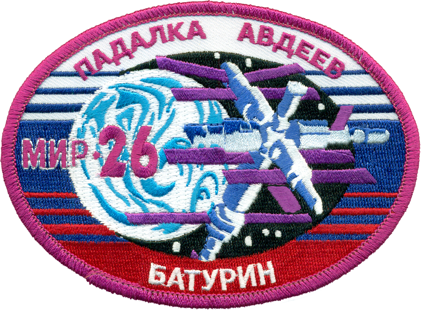 The official crew patch for the Russian Soyuz TM-28 mission, which delivered the EO-26 crew to the space station Mir.